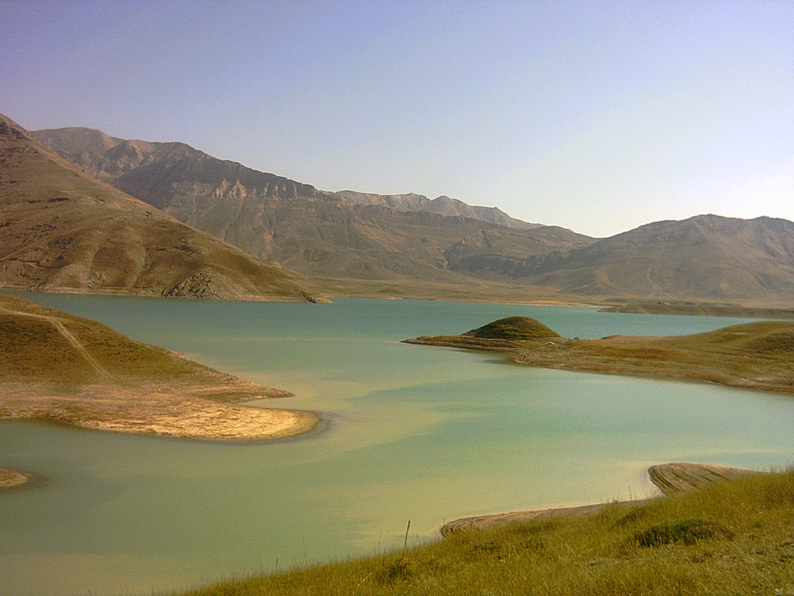 Lar lake, Amol, Mazandaran province, Iran